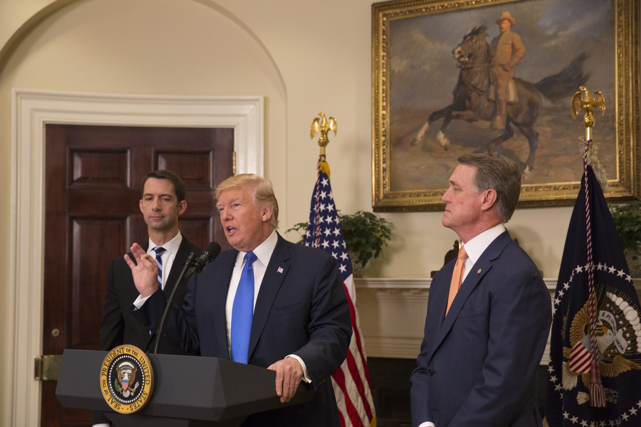 President Donald J. Trump, Senator Tom Cotton, and Senator David Perdue, August 2, 2017 (Official White House Photo by Andrea Hanks)